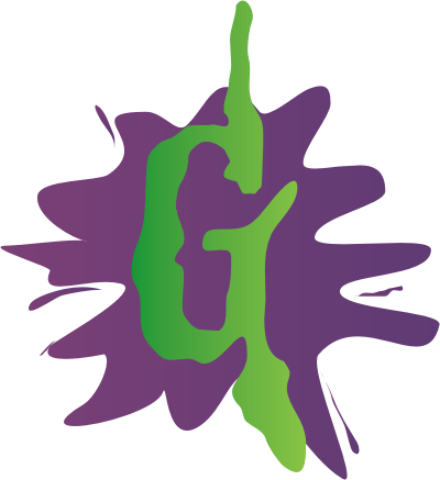 Drew in CorelDRAW for Goosebumps Stub Template.